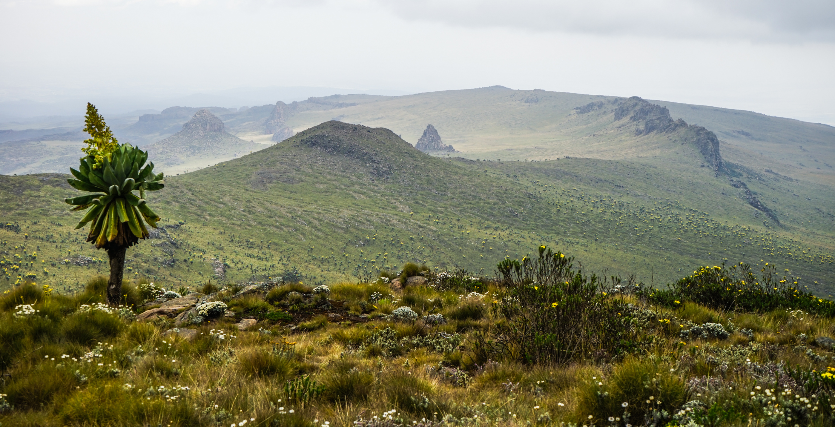 Aberdare National Park, Kenya